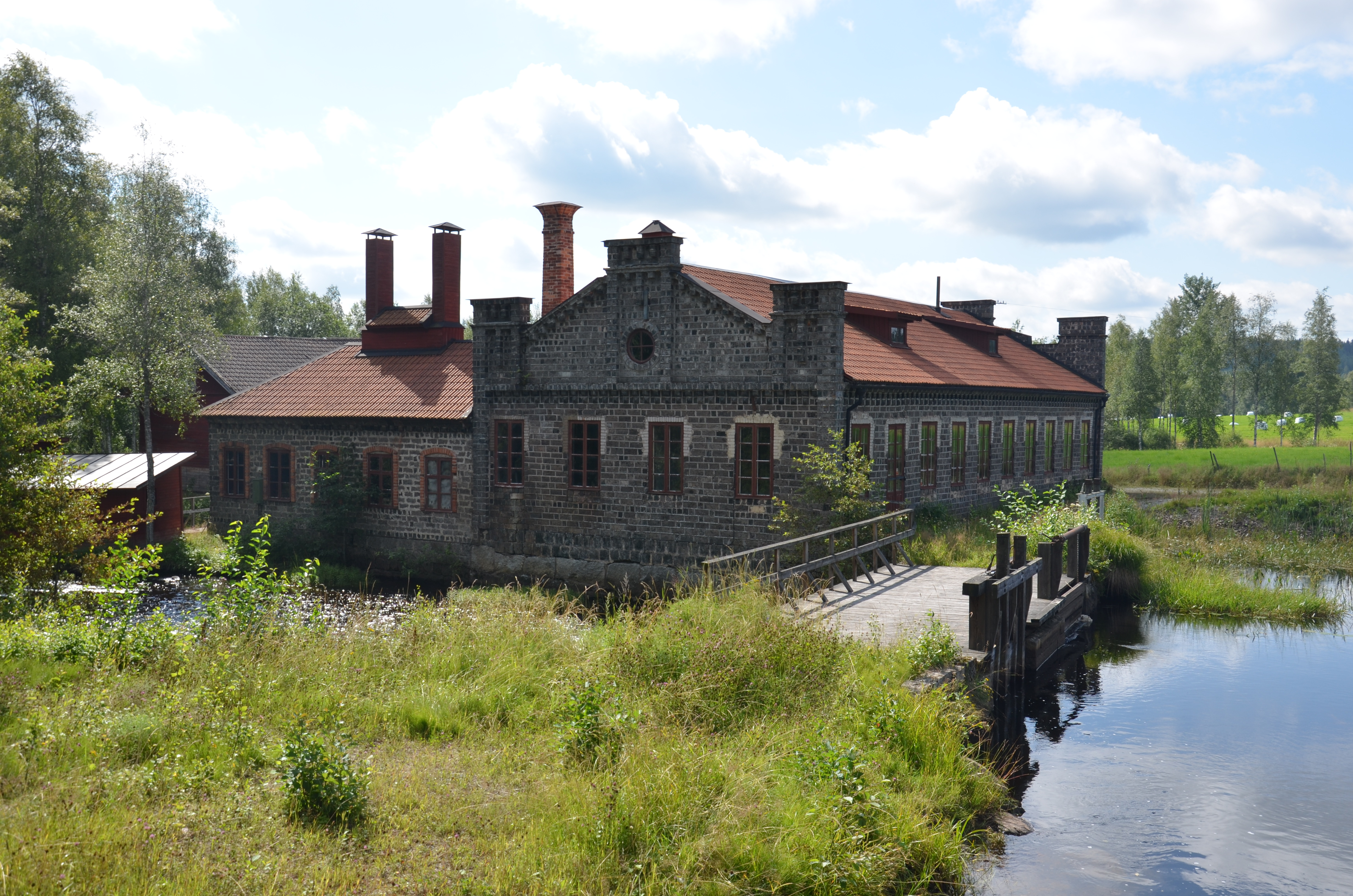 Thorshammars verkstad, Norberg, Sweden